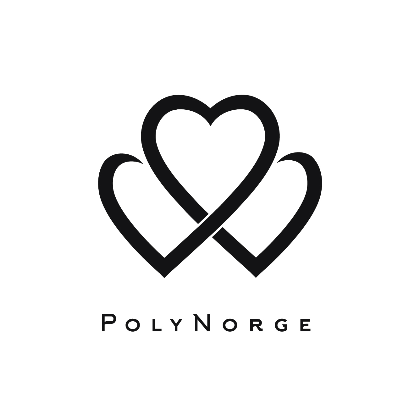 PolyNorge sin logo.